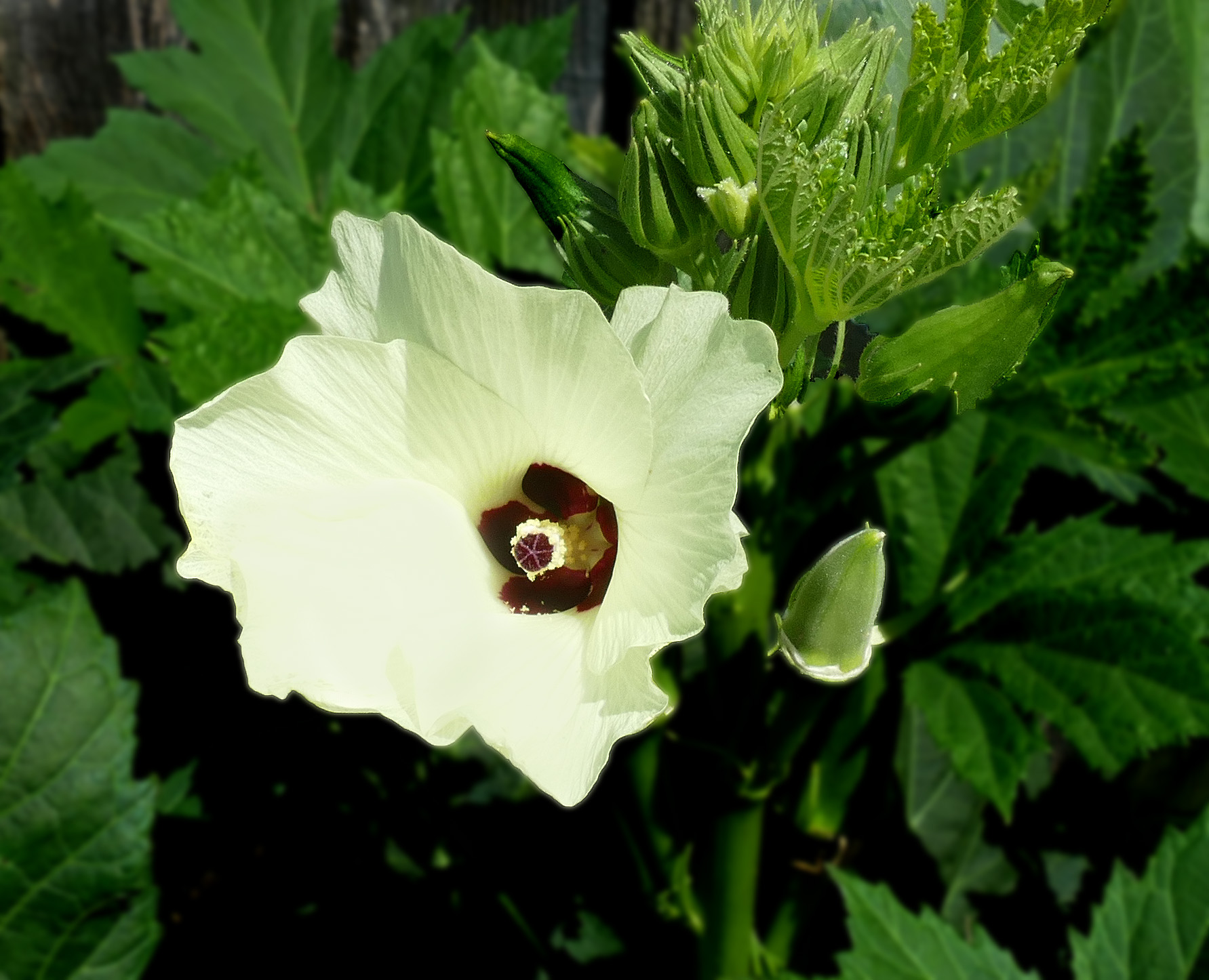 Okra bloom with seed pods